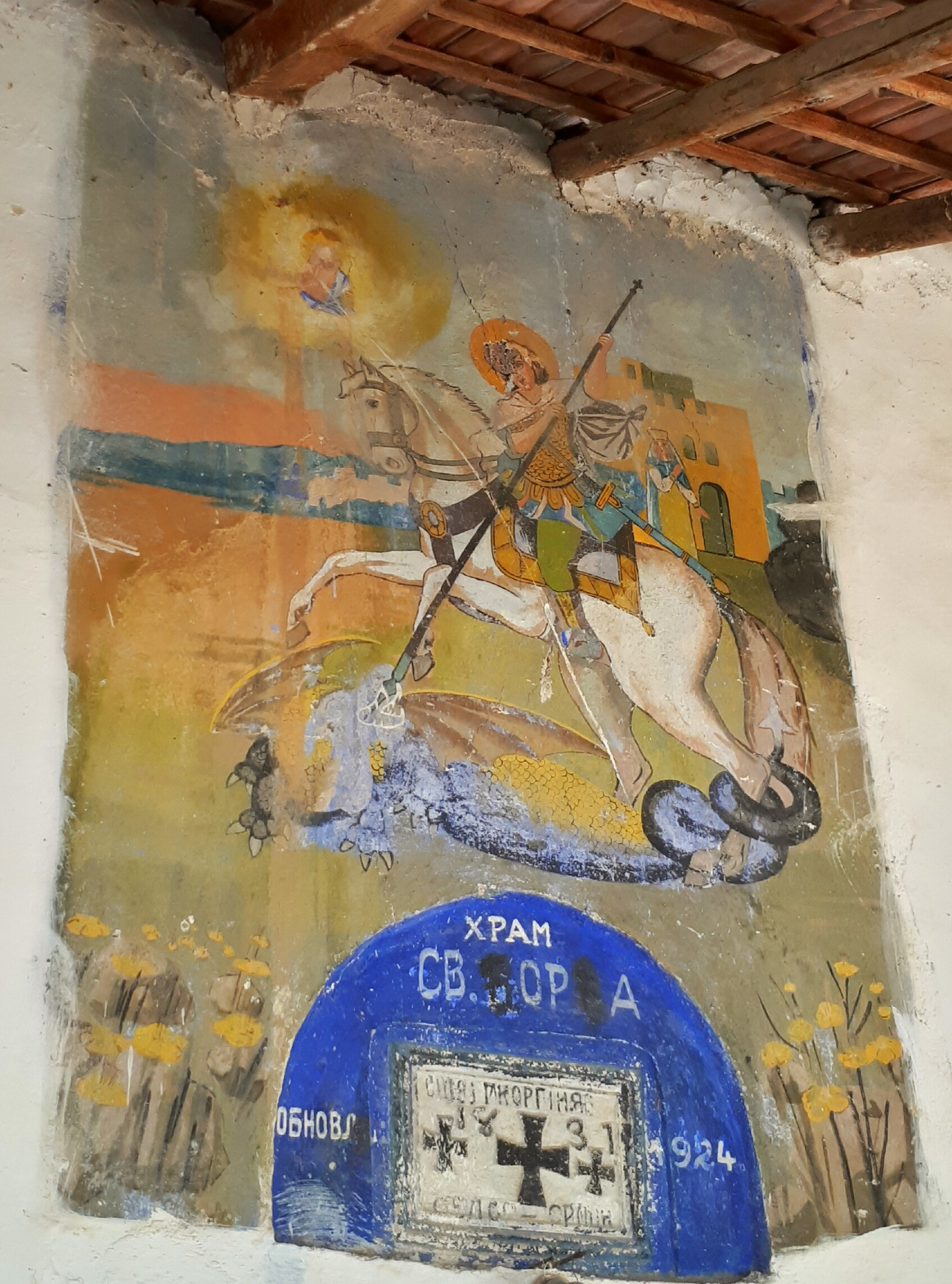 Part of the Veloexpedition in 2017